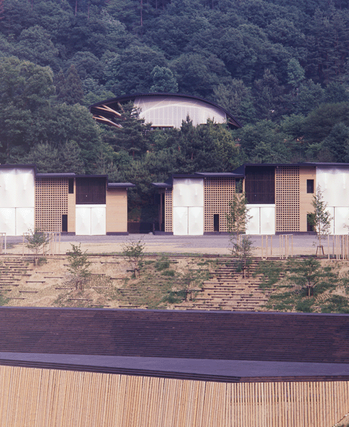 Gifu Academy of Forest Science and Culture